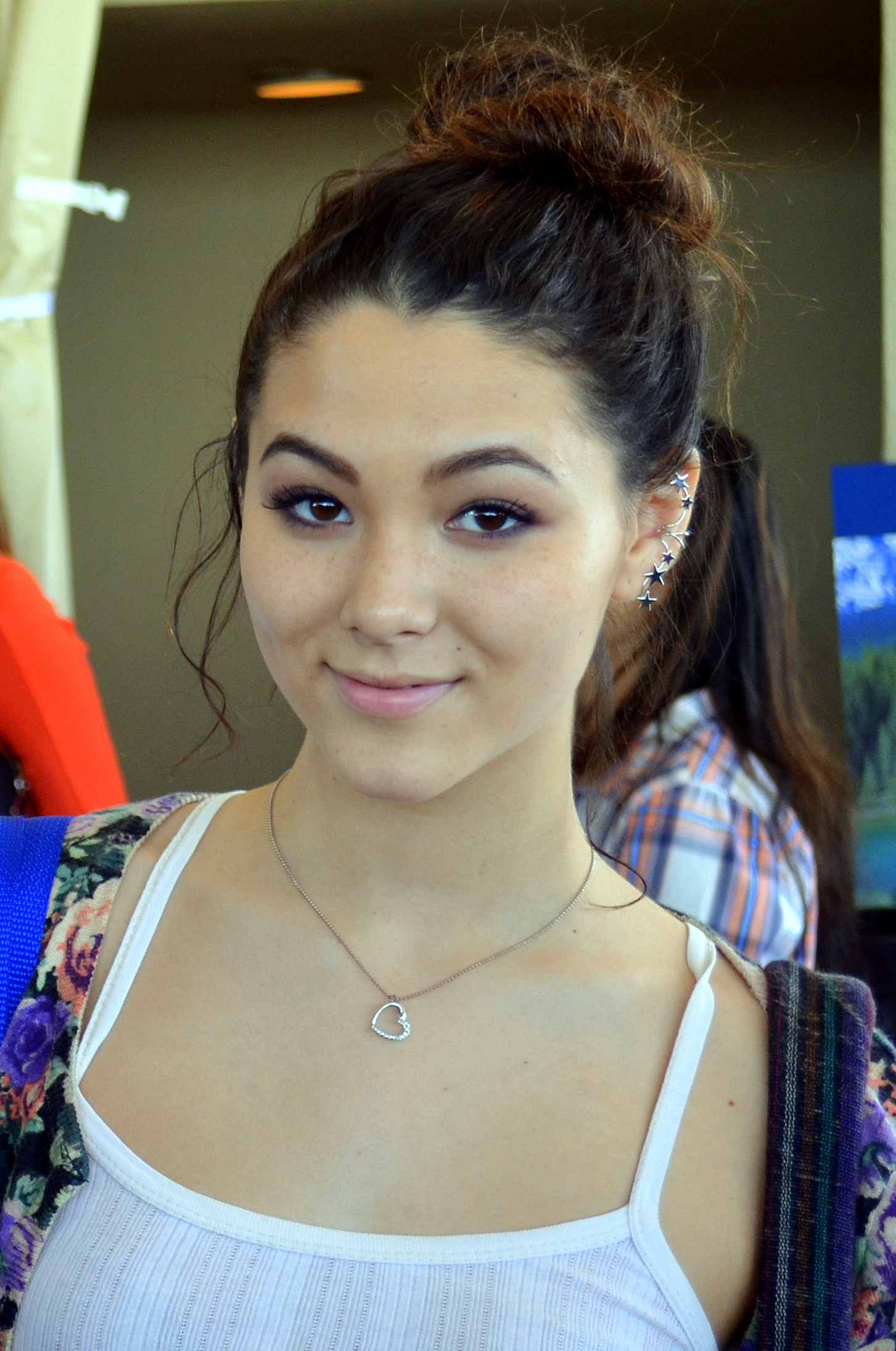 Actress Fivel Stewart at the 2012 Red Carpet Celebrity Lounge.